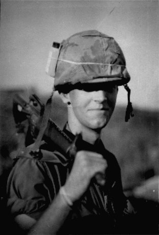 Picture taken of Gustav Hasford in Vietnam, as a reporter, photo taken by Dale Dye, property of USMC.